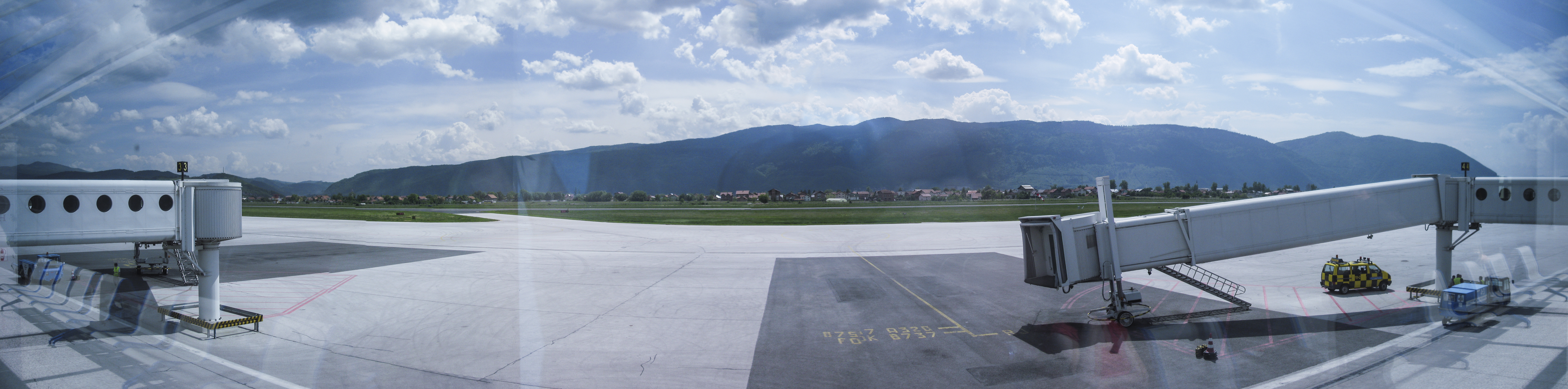 Sarajevo International Airport (SJJ)